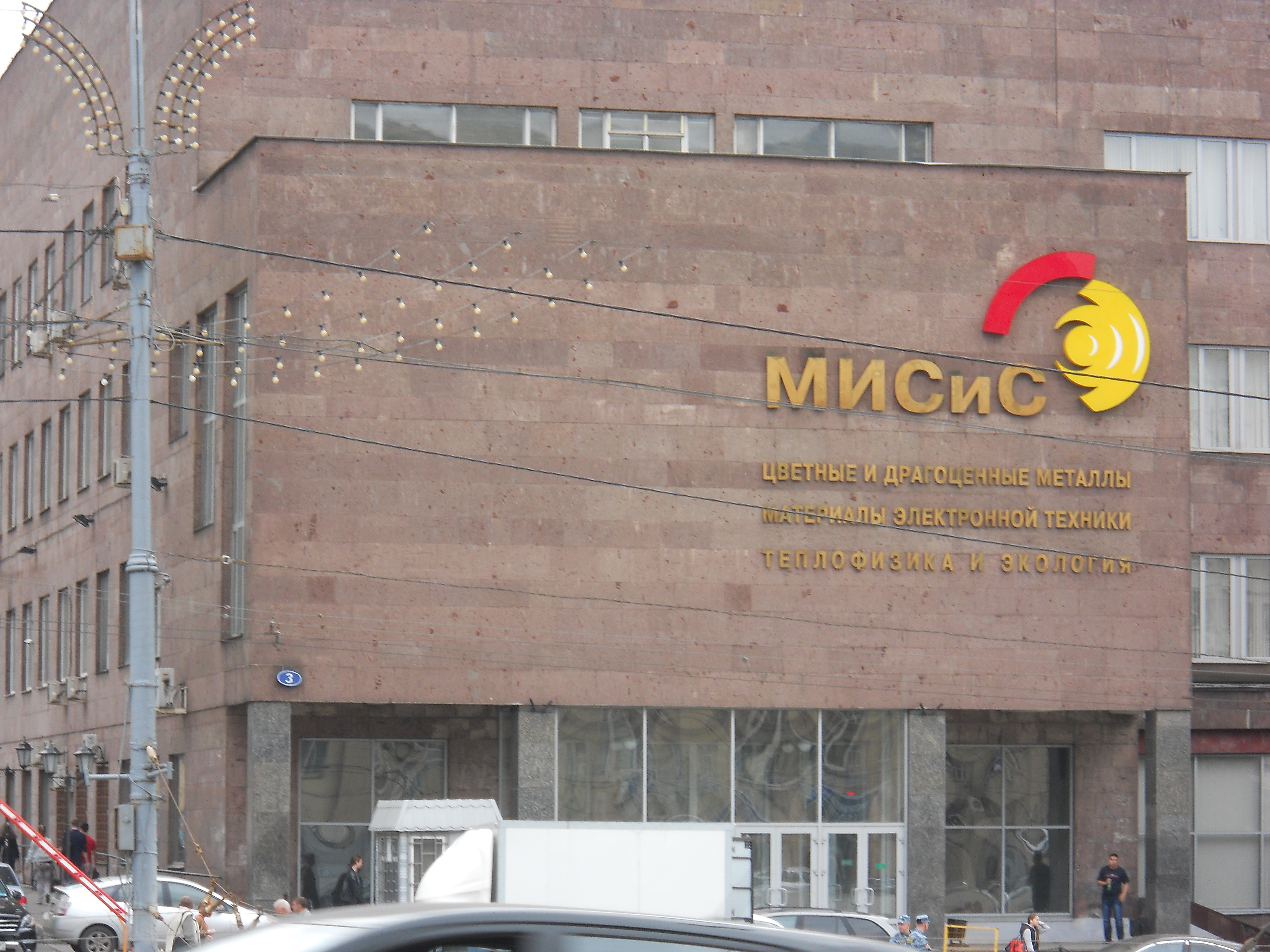 Krymsky Val 3, Moscow. Moscow Institute of Steel and Alloys (MISIS), Building 'K'.